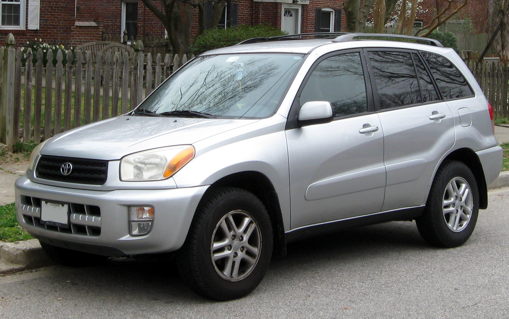 2001-2003 Toyota RAV4 photographed in Washington, D.C., USA.